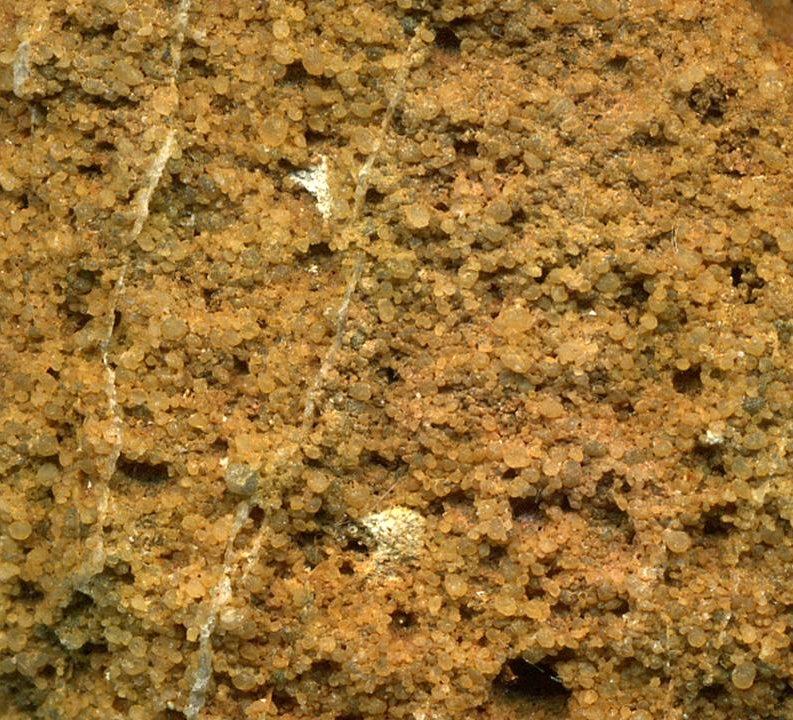 Quartzose sandstone from the Ordovician of Arkansas, USA. (field of view 2.55 cm across) The Ouachita Mountains of Arkansas were formed during the Late Paleozoic Ouachita Orogeny. That mountain forming event was accompanied by the intrusion of hydrothermal quartz veins in some areas. The Coleman Quartz Mine allows for close examination and collection of spectacular quartz crystals from these veins. The rock shown above is quartzose sandstone (quartz arenite) from the Middle Ordovician Blakely Sandstone. Very thin hydrothermal quartz veins (= whitish-gray wisps) of Late Pennsylvanian-Permian age are present throughout the rock. Location: Coleman Quartz Mine, south of Jessieville, northern Garland County, west-central Arkansas, USA (34º 39.700' North, 93º 06.072' West)